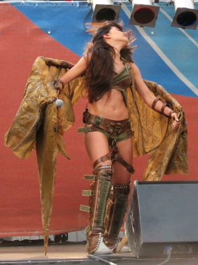 Ruslana in concert - Wild Energy